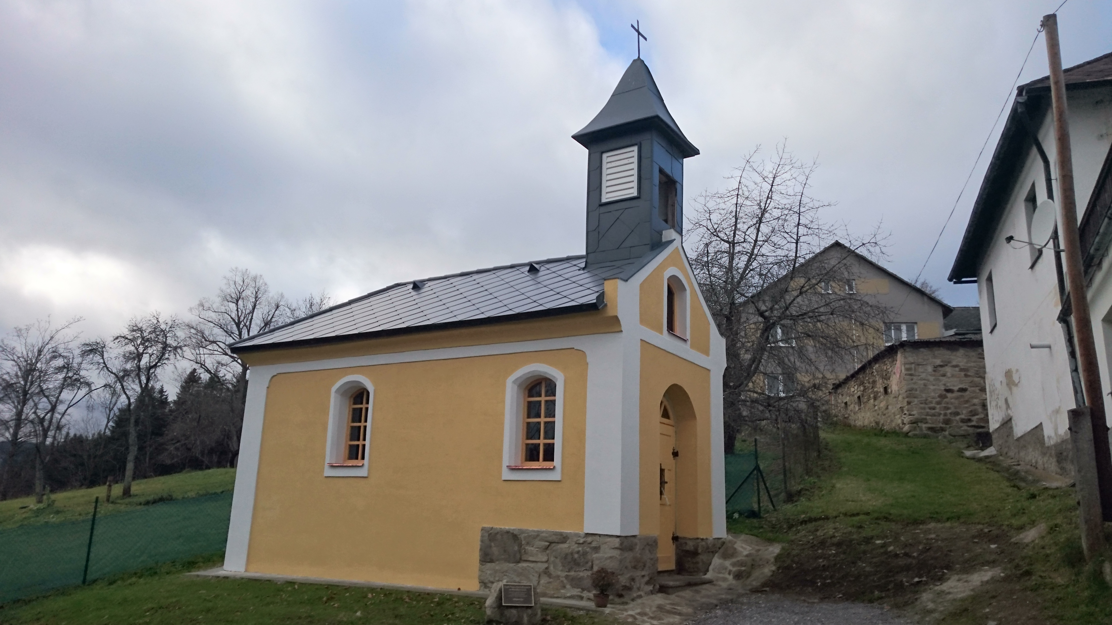 Chapel at the Brantls courtyard, Brantlova 247/44, 385 01 Vimperk